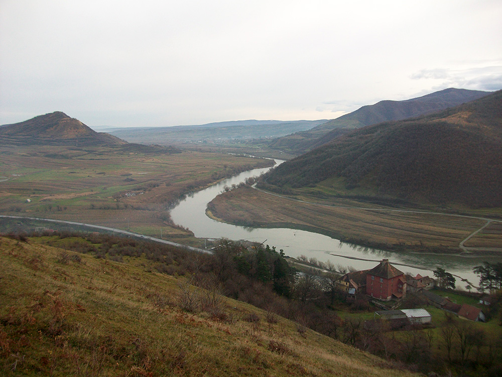 Turnu Rosu castle and Olt river